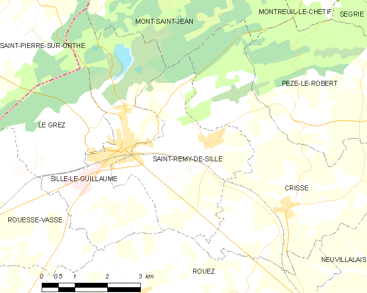 Map of French municipality